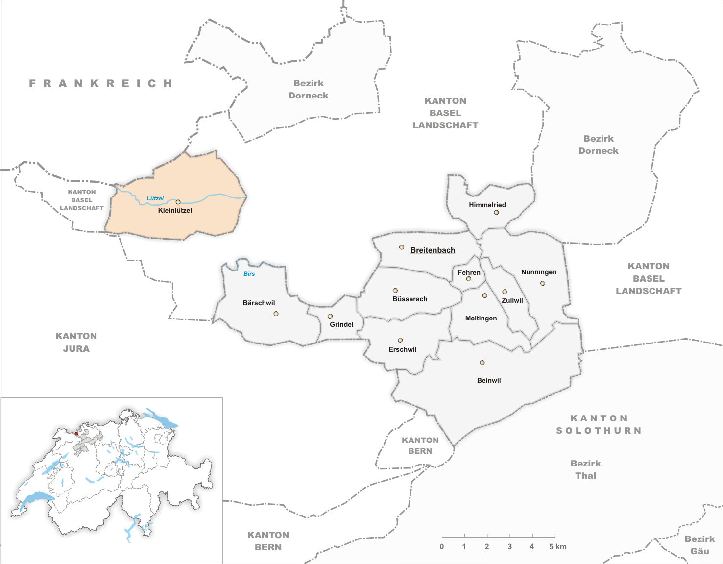 Municipality Kleinlützel